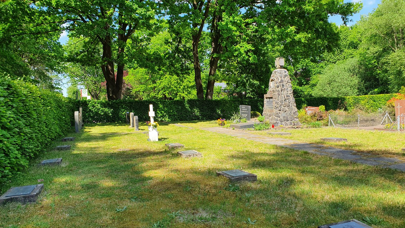 War cemetery at Heidenau cemetery 001